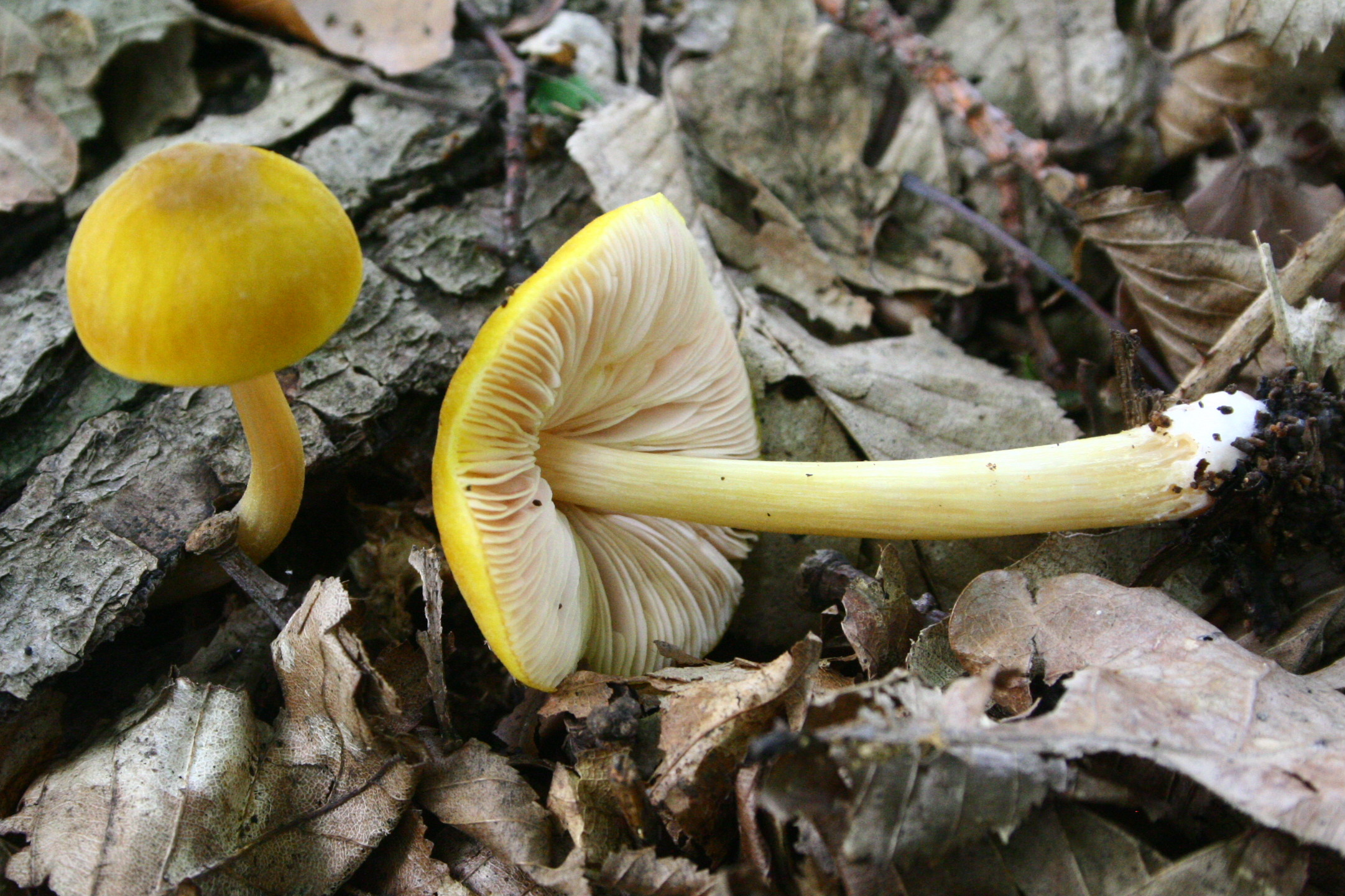 Pluteus leoninus in the Forêt de Marly near Paris, France.